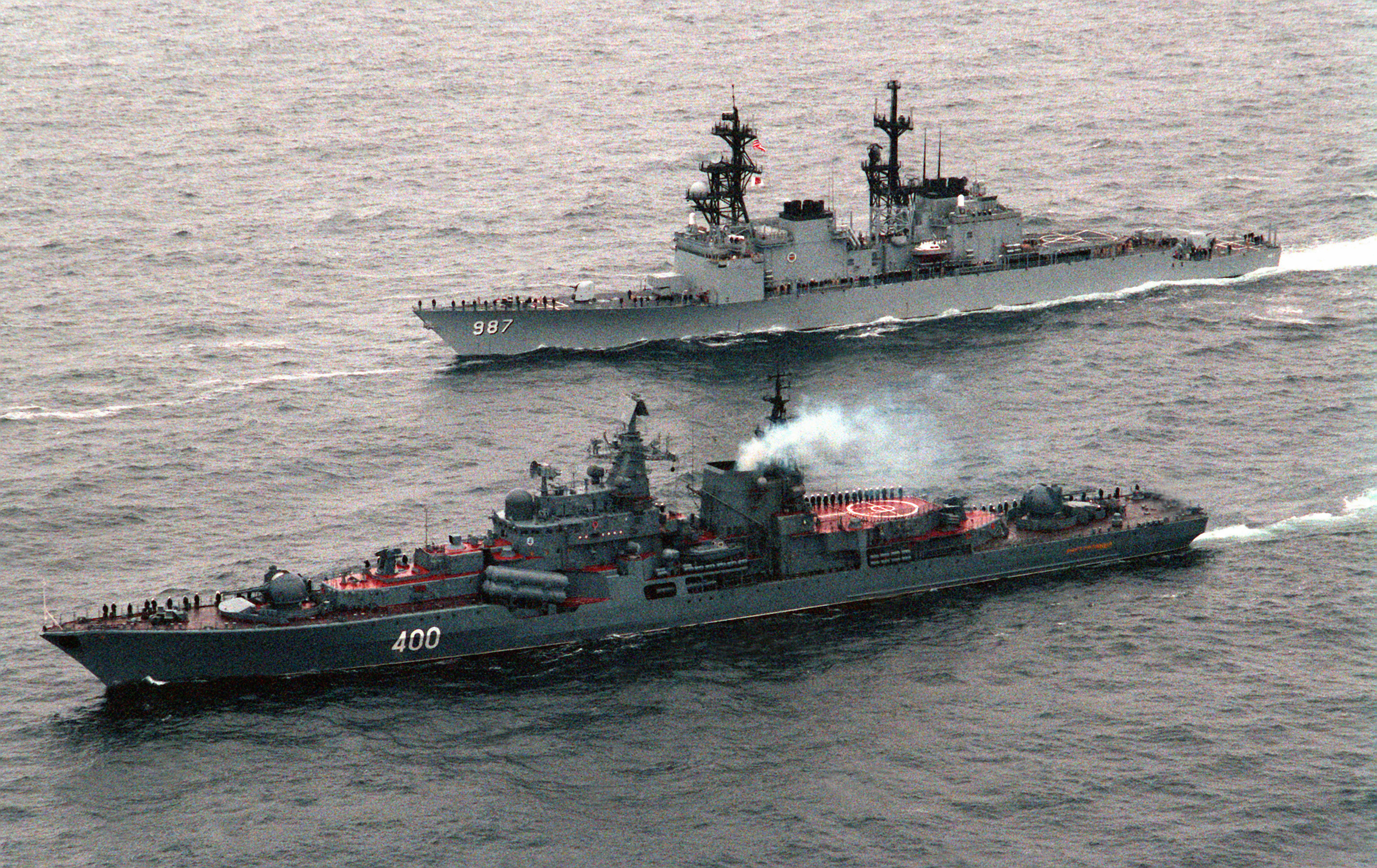 A port view of the Russian guided missile destroyer RASTOROPNY, foreground, taking part in an exercise with the destroyer USS O'BANNON (DD-987). The O'BANNON and the guided missile cruiser USS YORKTOWN (CG-48) are visiting the Russian naval base at Severomorsk as part of an ongoing exchange between the navies of the United States and the Commonwealth of Independent States.